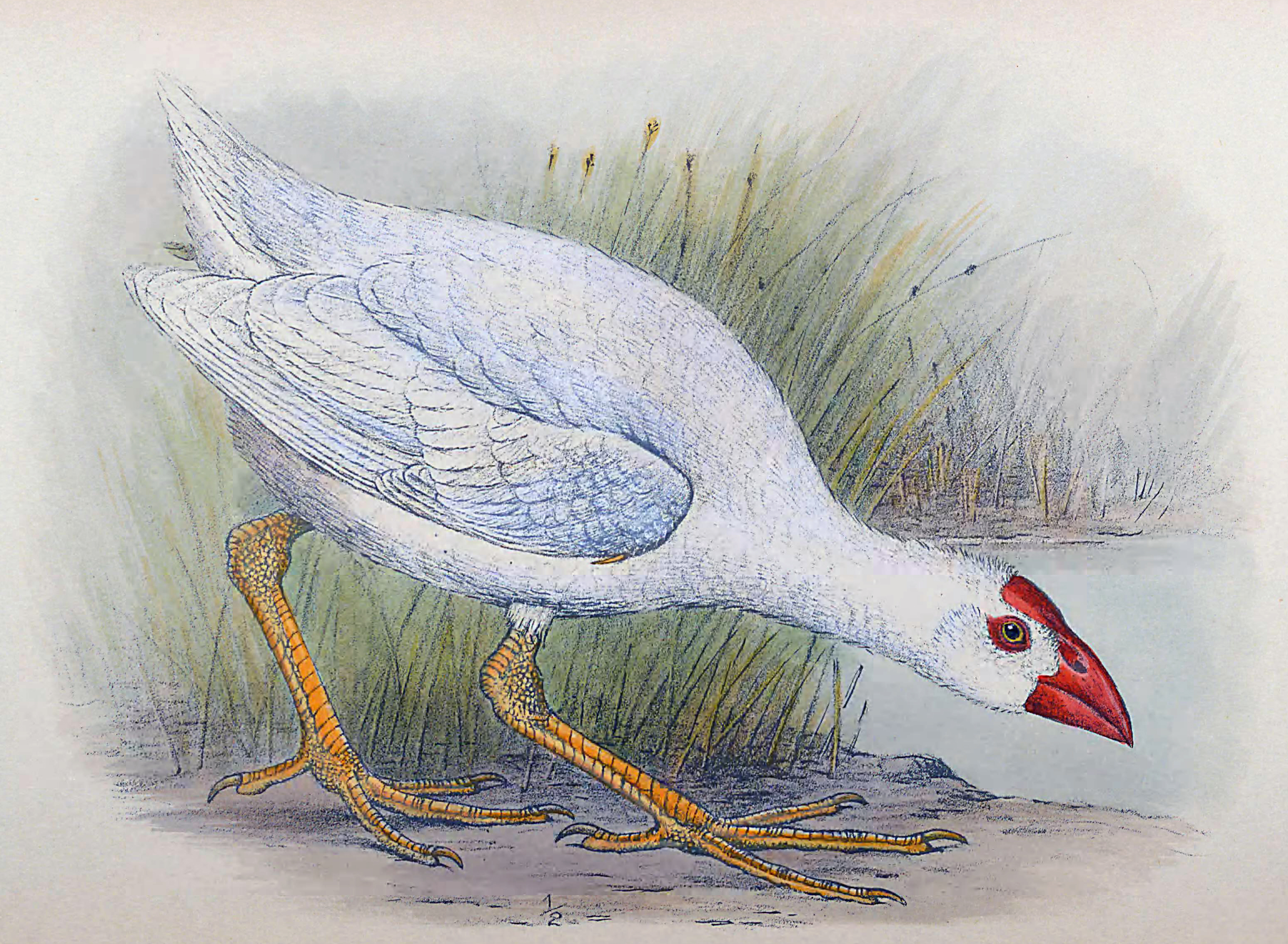 Lord Howe swamphen, Porphyrio albus.